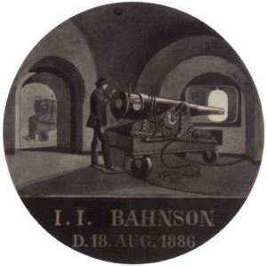 Commemorative bullseye made for Minister of War Jesper Jespersen Bahnson in 1886, showing the interior of a casemate at Prøvestens Fort.